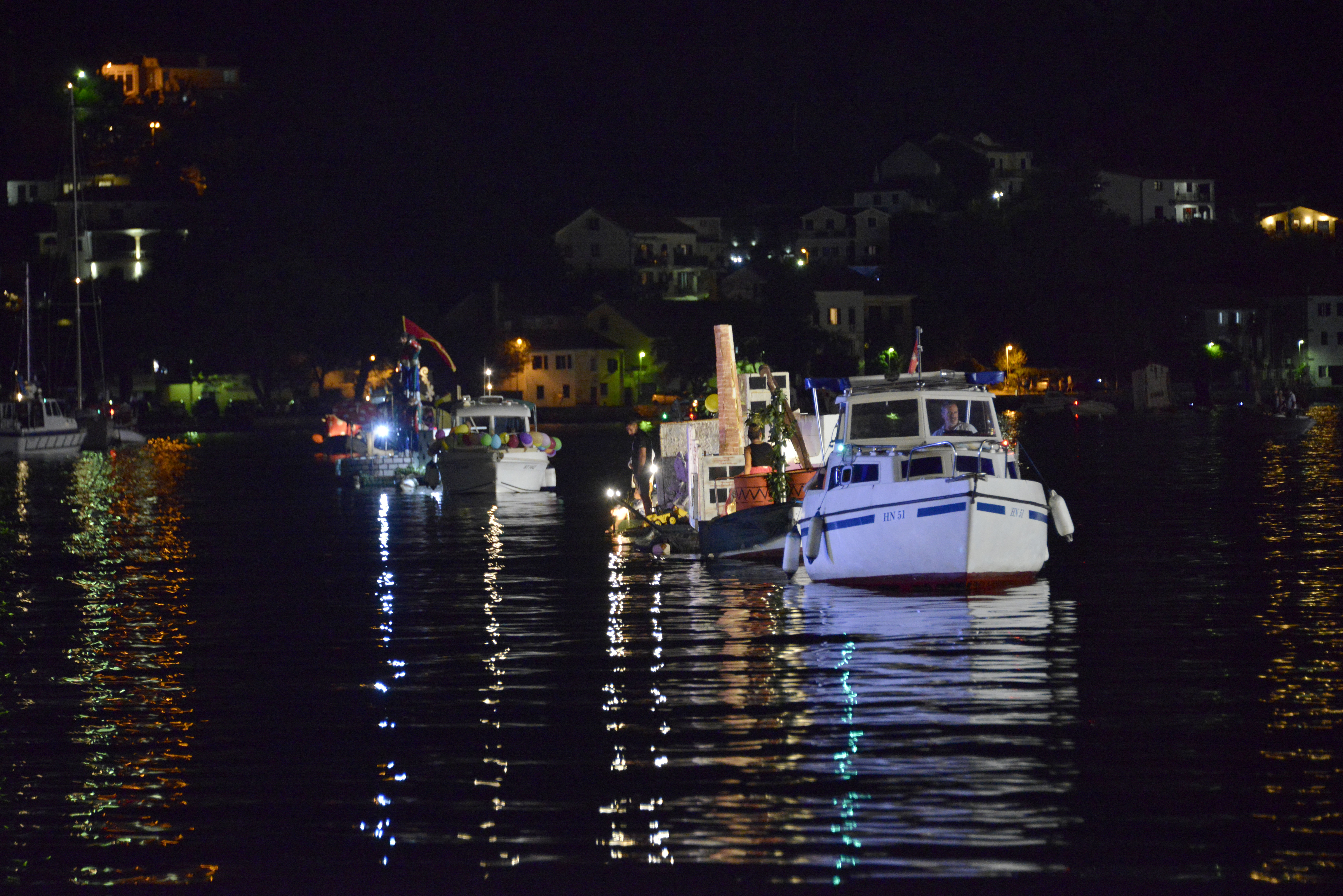 Ornate barges during Boka Night event